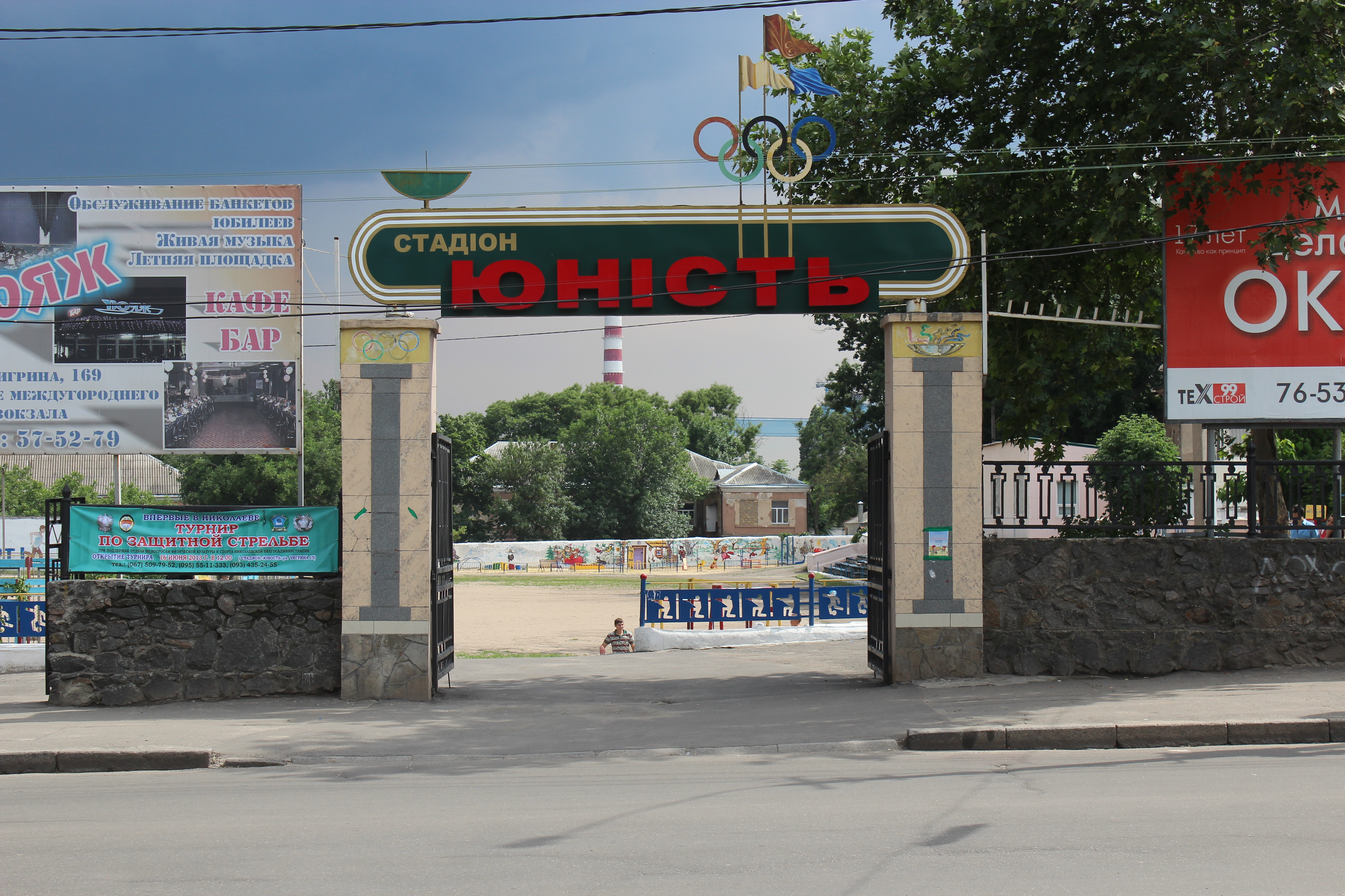 Junist Stadium. Mykolaiv, Ukraine.